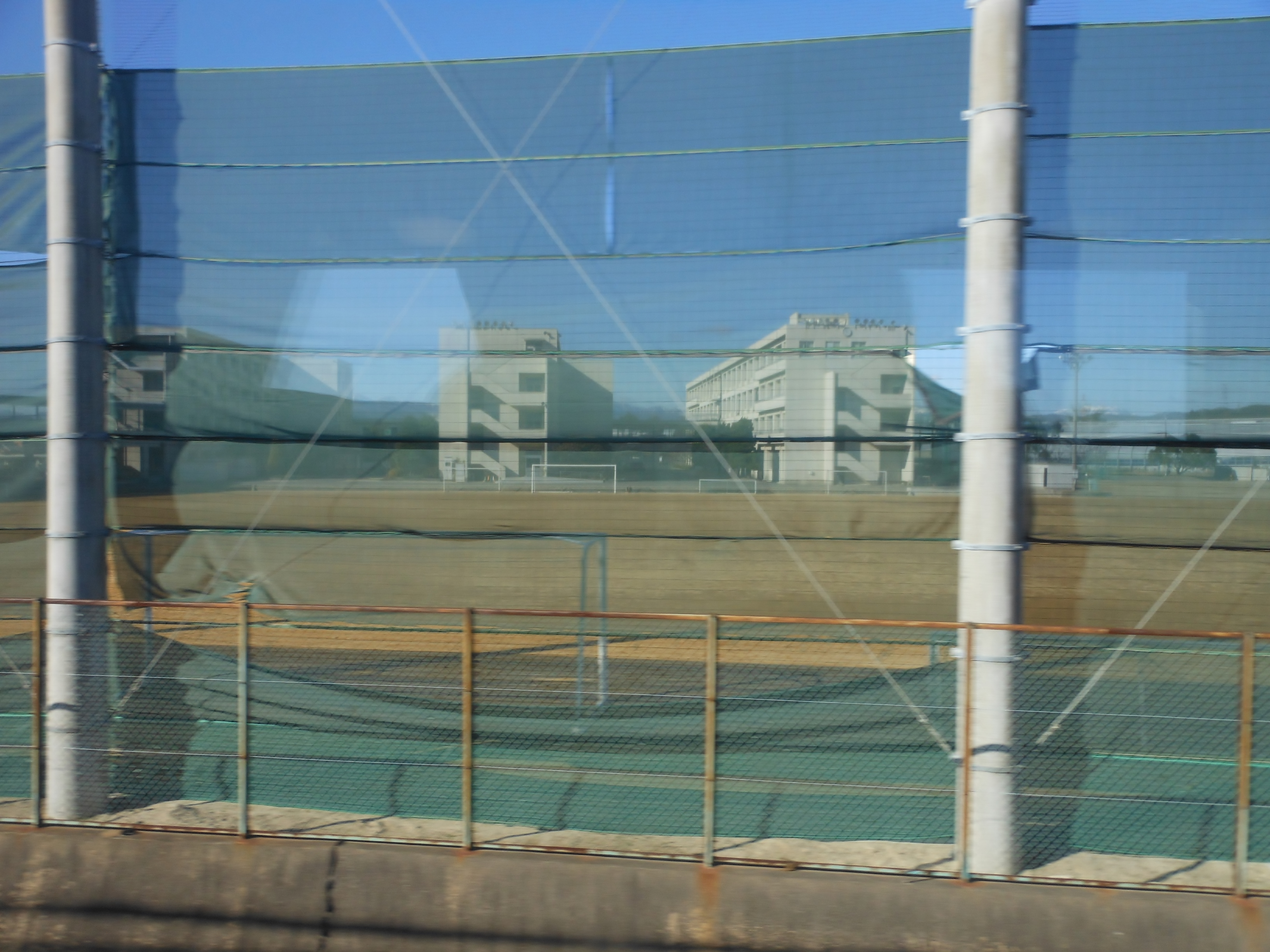 This is the Mie prefectural Kawagoe High School in Kawagoe, Mie, Japan.